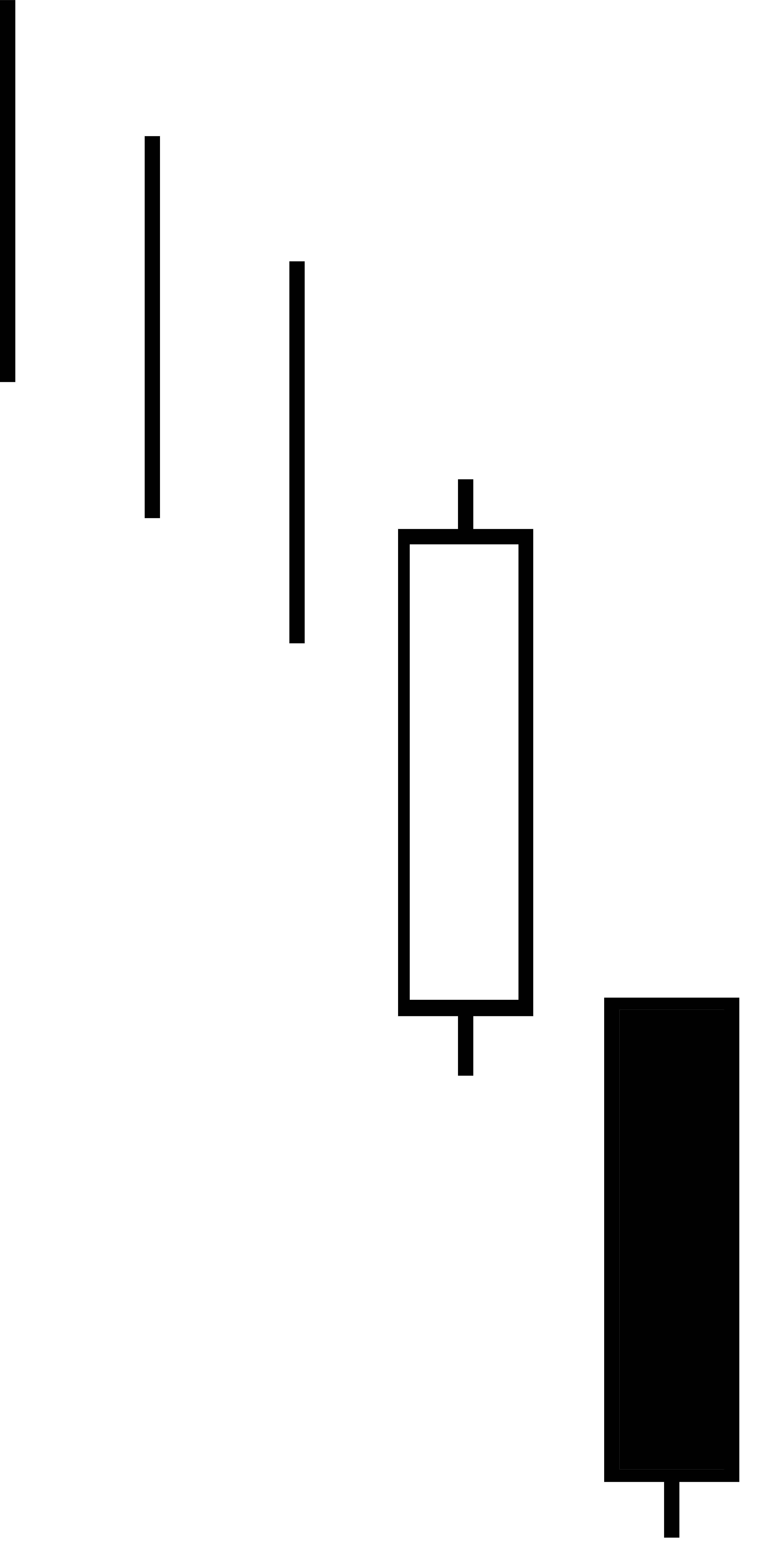 Bearish seperating lines